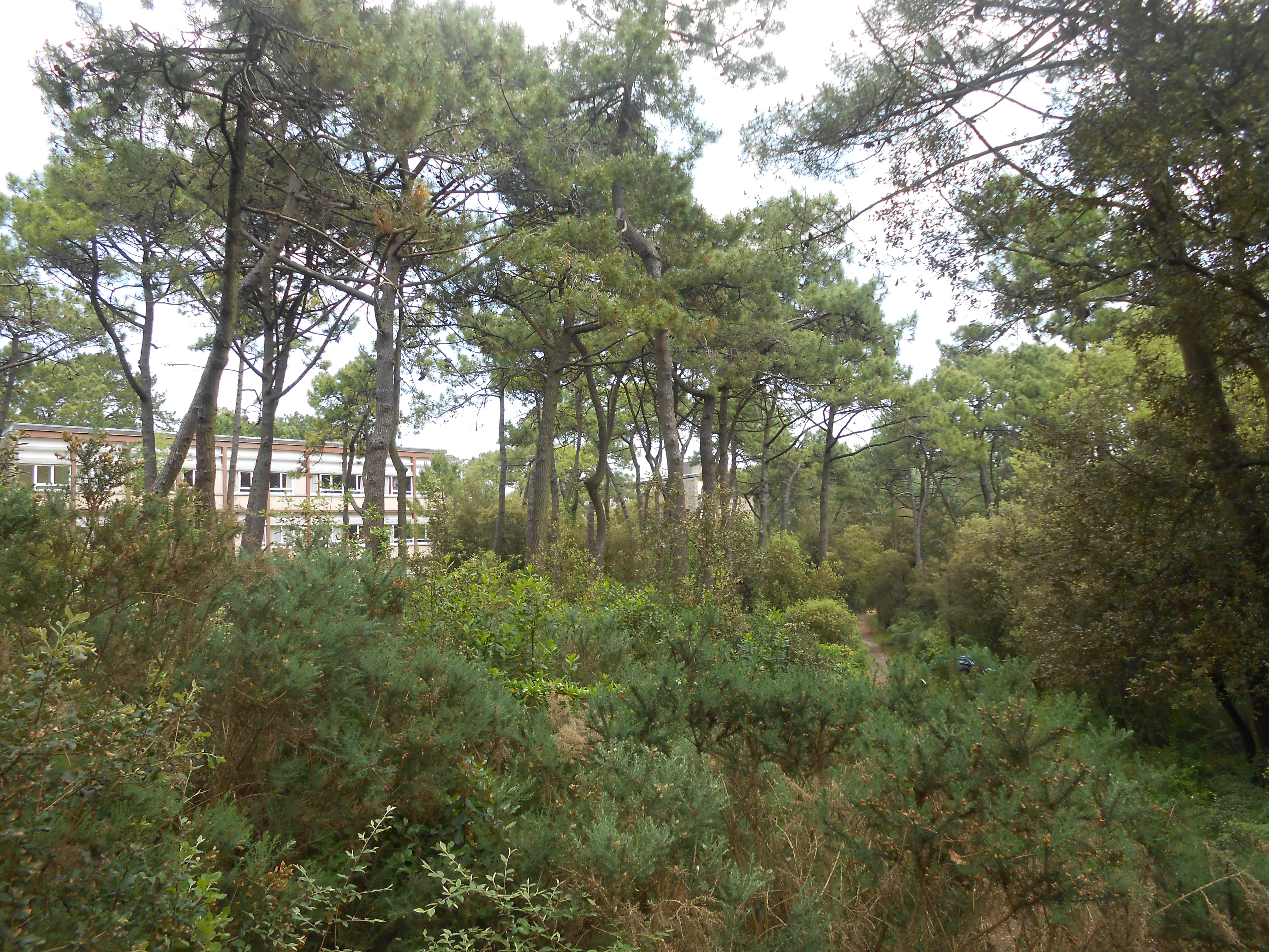 The forest of La Baule, with Lycée Grand Air MIddle-High School at the back (France)